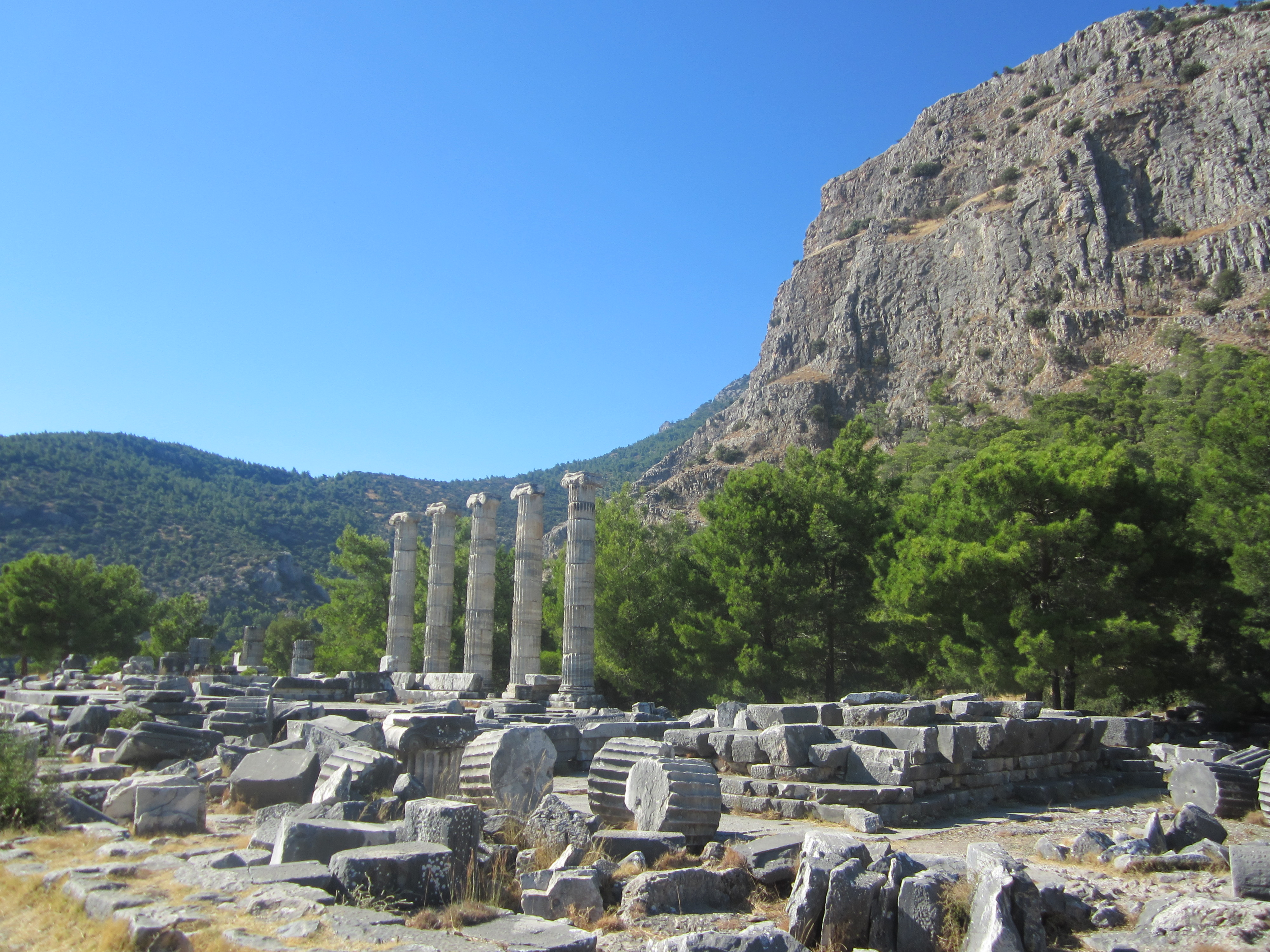 Ruins of the temple of Athena (Athene) Polias. Archaeological site of ancient Priene in modern Turkey.